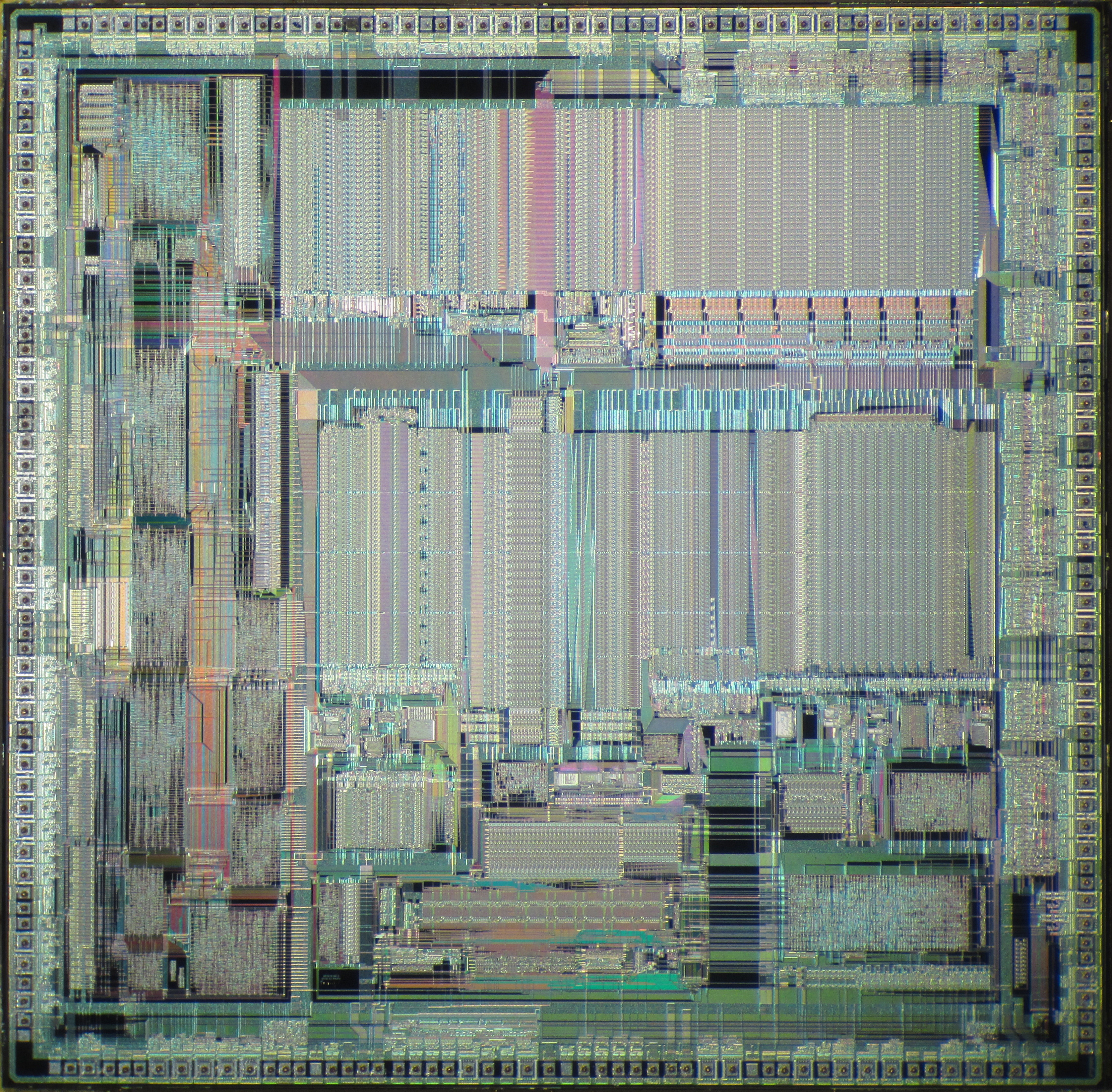 Die shot of Weitek 8601 SPARC microprocessor (8601-040-GCD).